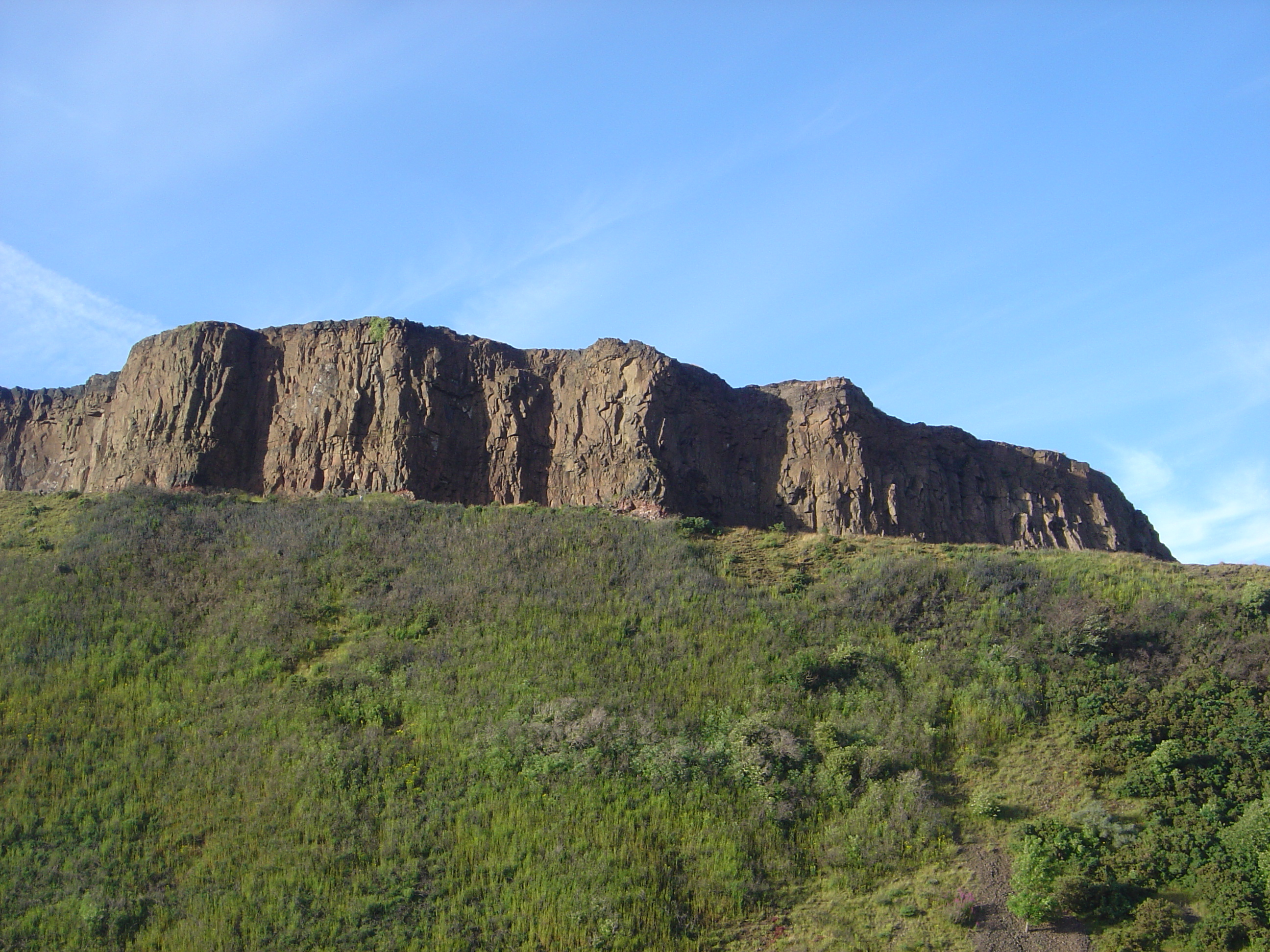 Salisbury Crags, Holyrood Park, Edinburgh